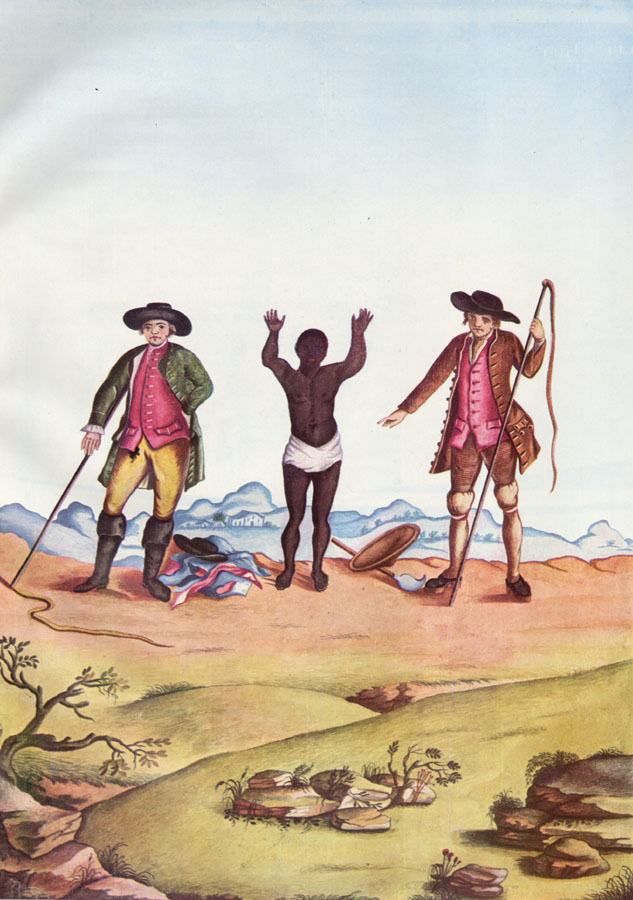 Whipping an Enslaved Male, Serro Frio, Brazil